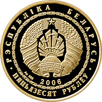 Peregrine Falcon. Silver commemorative coins, denomination: 20 rubles. Belarus.